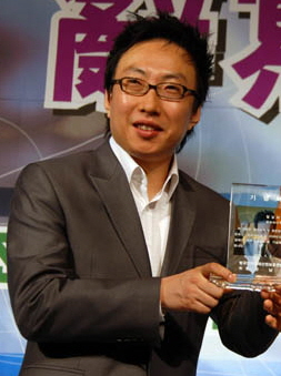 Park Myeong-su on April 4, 2008